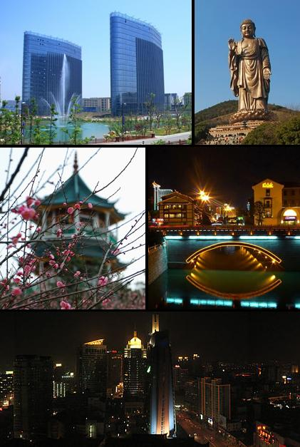 Landmarks of Wuxi. The photo is a montage of various files from Wikimedia Commons.